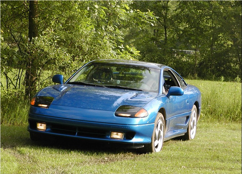 1992 Dodge Stealth RT Twin Turbo Taken at the 2003 MI3SI Picnic. A Sheffield